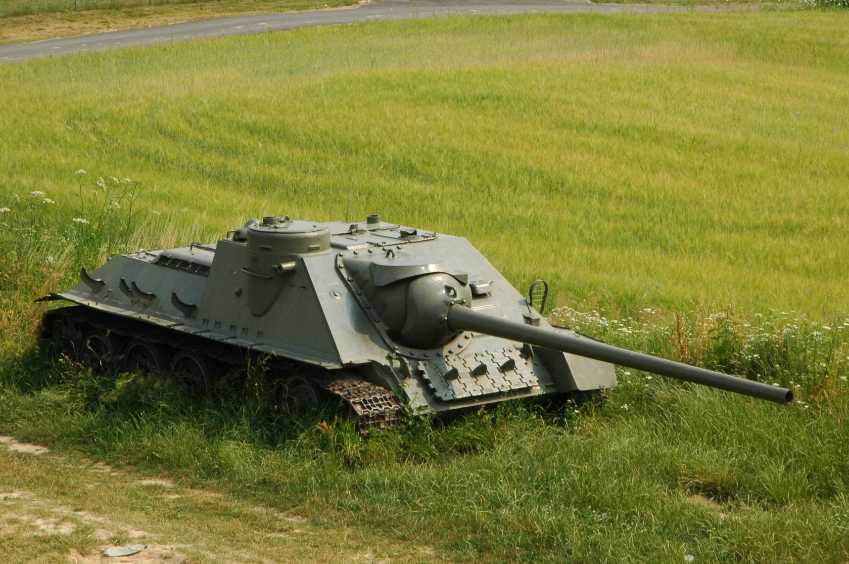 Soviet tank destroyer SU-100 in Czech Republic, WWII fortification museum